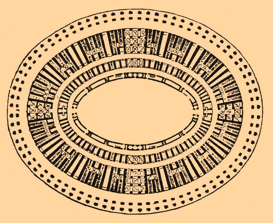 Illustration from Brockhaus and Efron Encyclopedic Dictionary (1890—1907)